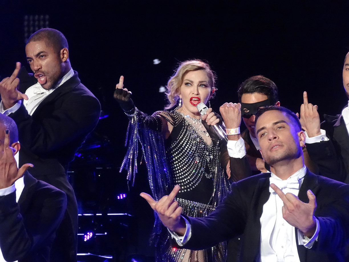 Madonna performing "Unapologetic Bitch" during her Rebel Heart Tour concert in Antwerp, Belgium on November 28, 2015.